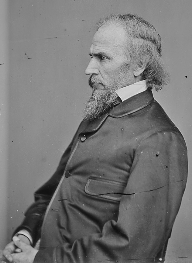 John Benedict Steele, Congressman from New York